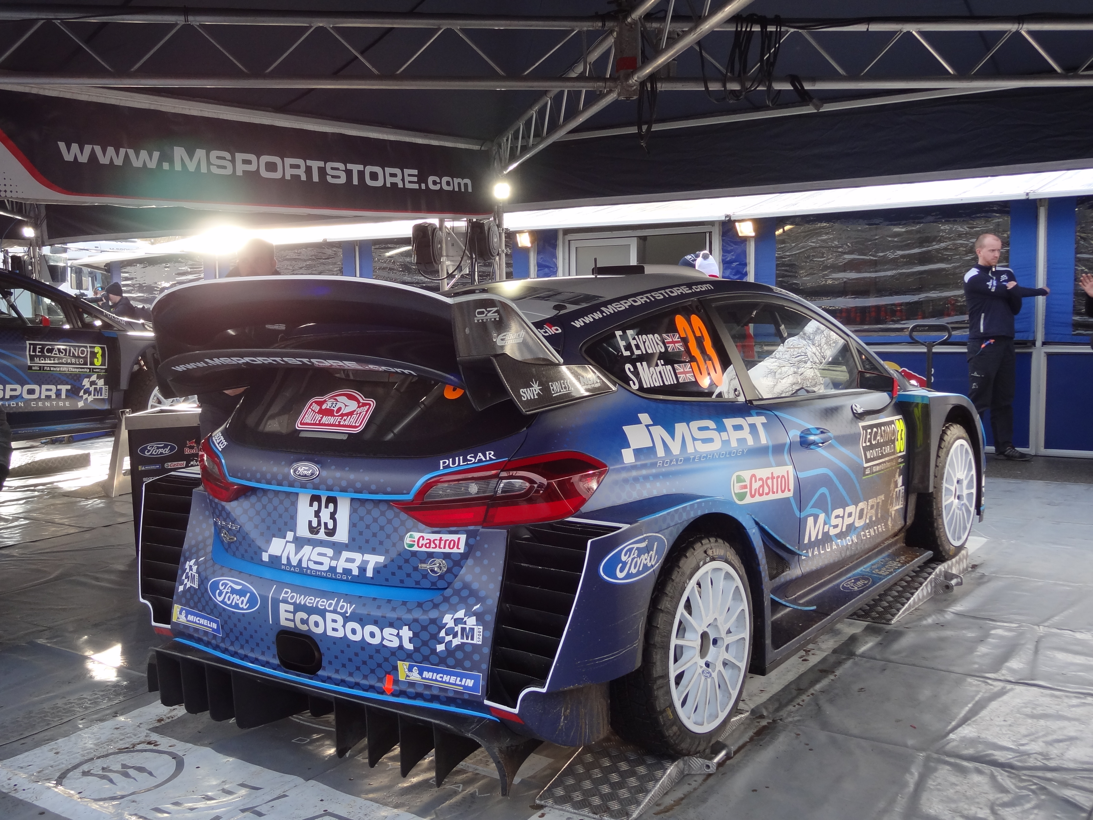 Ford Fiesta WRC d'Elfyn Evans au Rallye Monte-Carlo 2019.